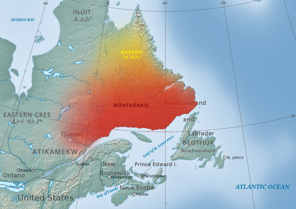 Traditional Innu territory and languages This file was derived from: Atlantic Canada - Natural Earth.jpg by Kbh3rd